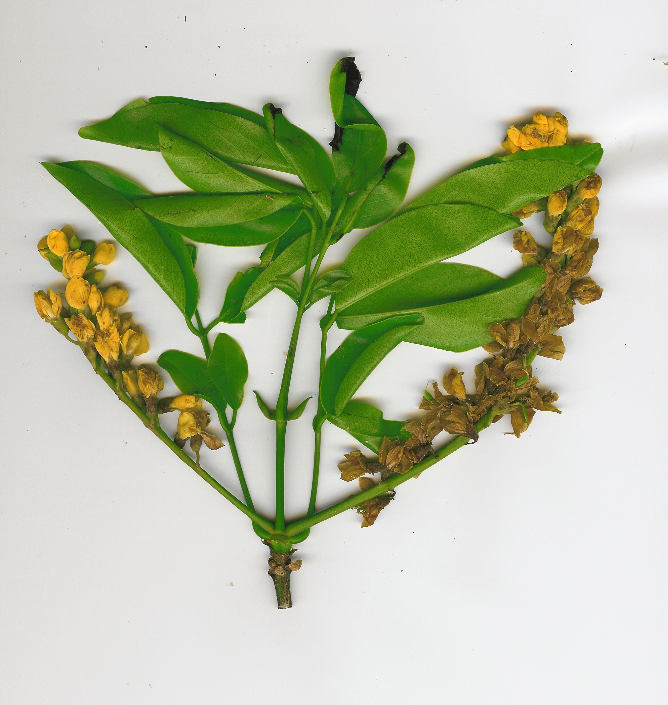 Platymiscium stipulare (plant). Location: Molokai, Kaunakakai